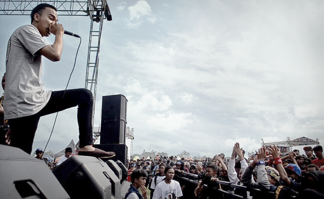 Cry In December live in Hellprint United Day III